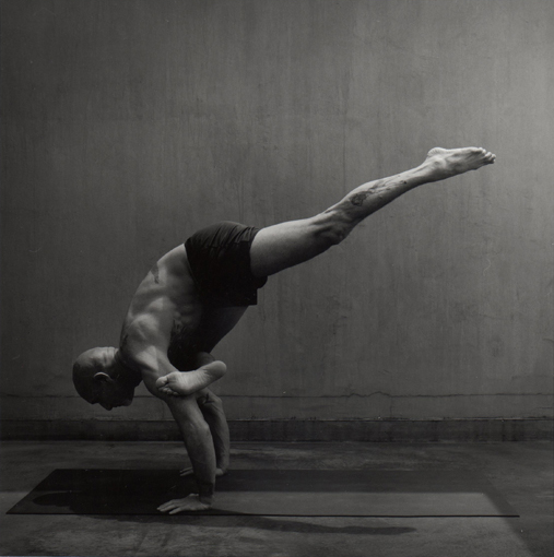 Barry Silver 2011